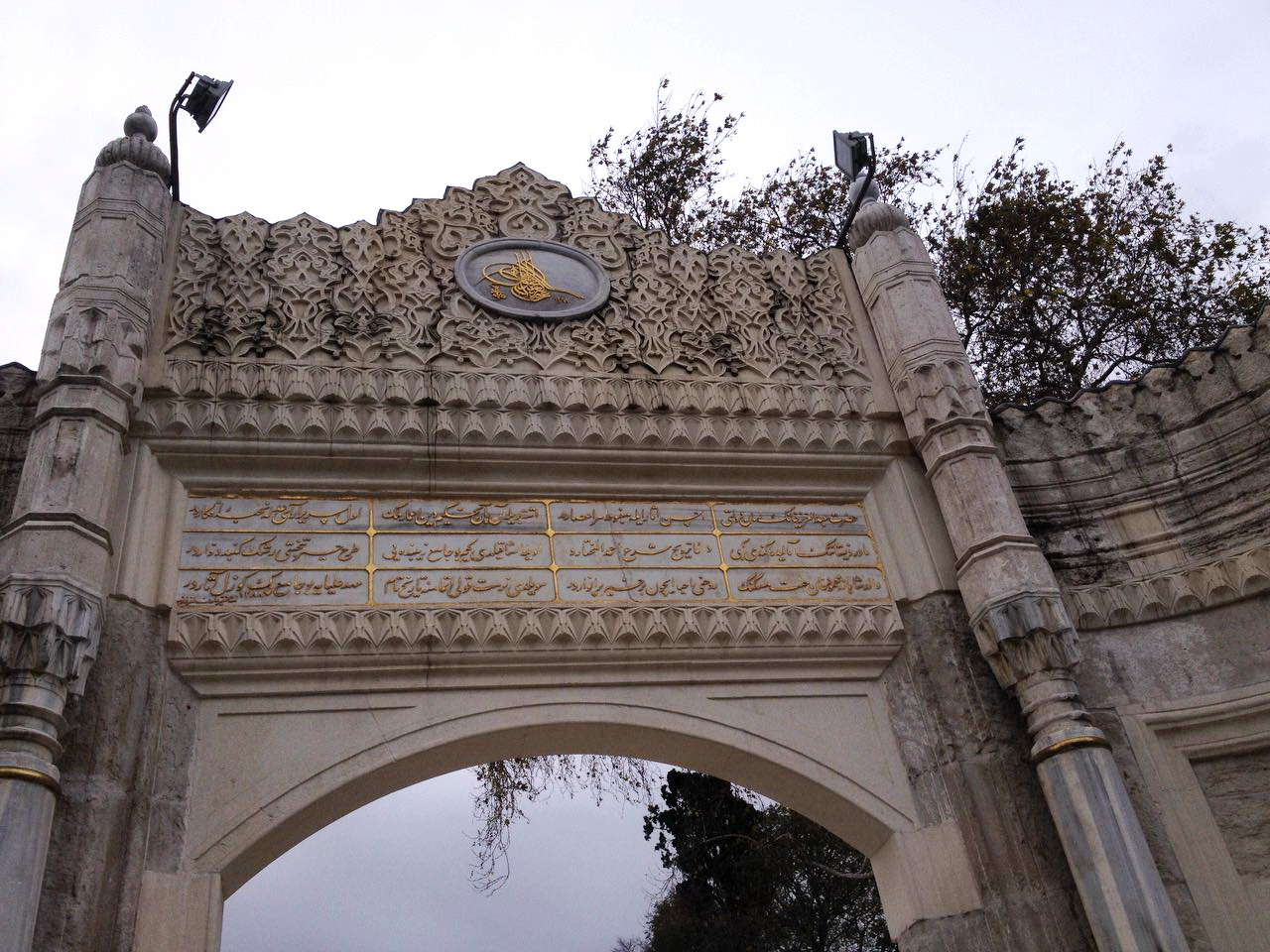 The Pertevniyal Valide Sultan Mosque, also known as the Aksaray Valide Mosque (Turkish: Pertevniyal Valide Sultan Camii, Aksaray Valide Sultan Camii), is an Ottoman imperial mosque in Istanbul, Turkey. It is located at the intersection of Ordu Street and Atatürk Boulevard in the Aksaray neighborhood. It is located next to Pertevniyal High School (Turkish: Pertevniyal Lisesi) which was also built by the order of Sultana Pertevniyal in 1872.